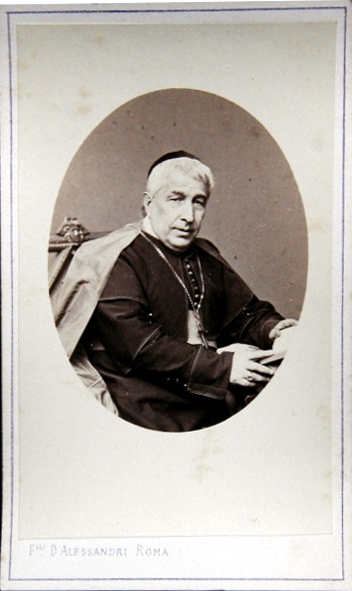 Fratelli D'Alessandri: Raffaele Ferrigno (+1875), Archbishop of Brindisi. Picture taken in 1869 during the First Vatican Council, where the sitter attended as Council Father.